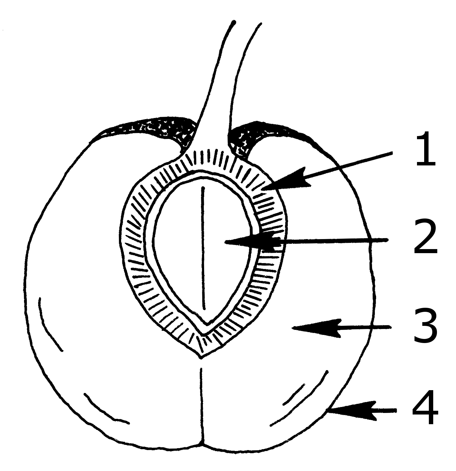 Line art drawing of a Pericarp. Endocarp Seed Mesocarp Epicarp